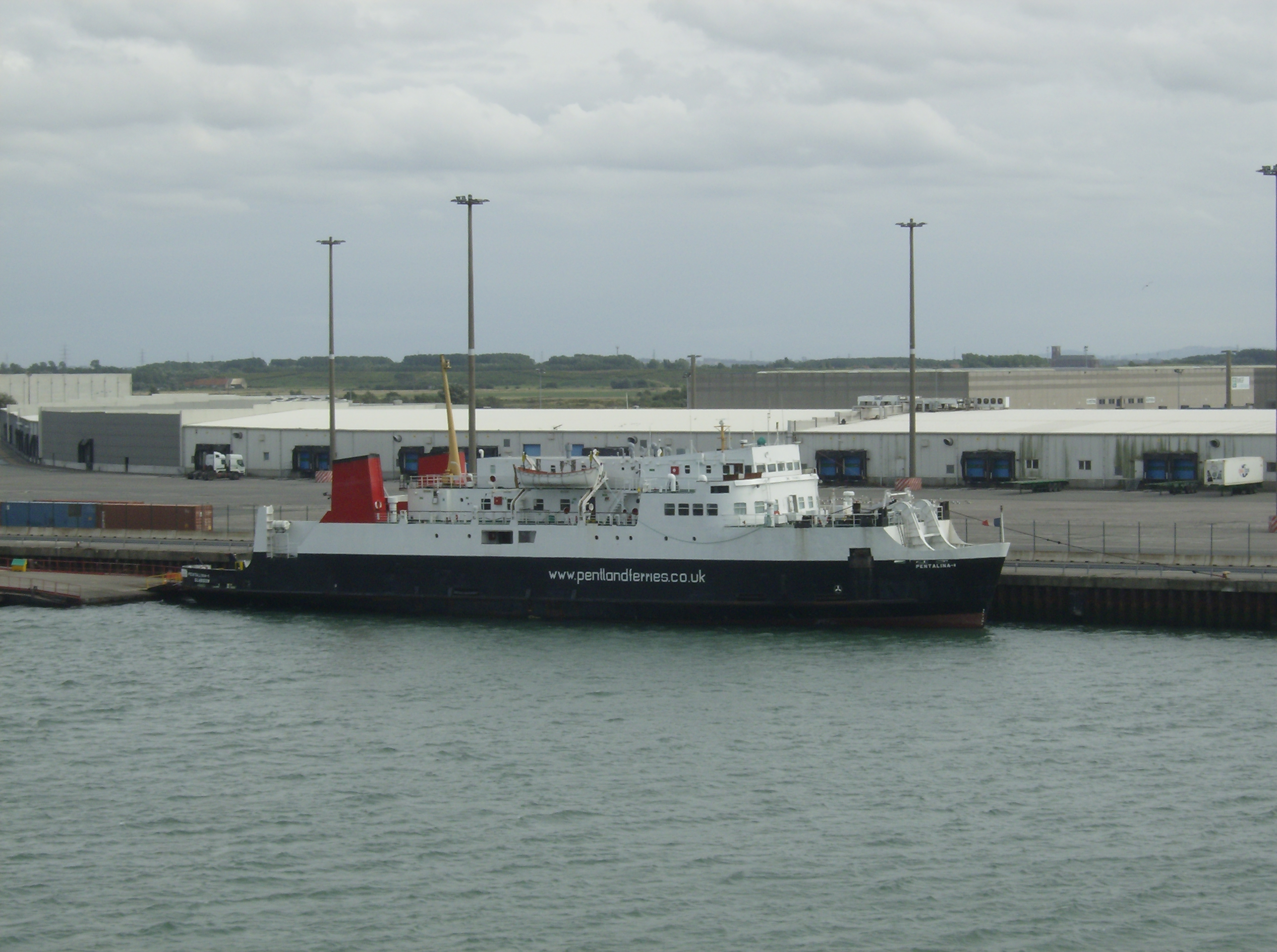 Pentland Ferries, MV Pentalina B at Dunkerque, France. Formerly CalMac vessel, MV Iona